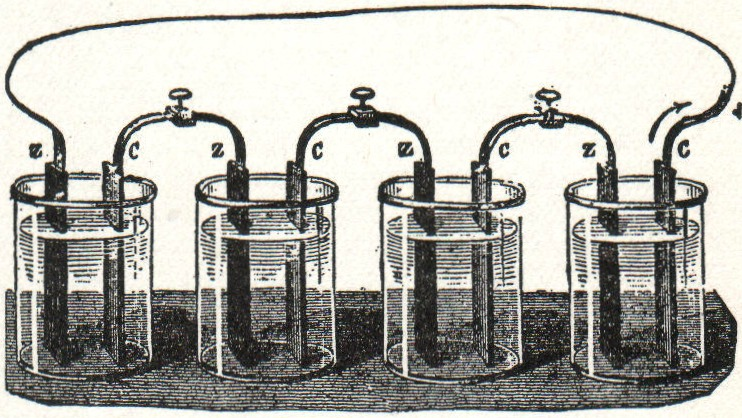 Drawing/wood engraving of an electric battery composed of four zinc and copper liquid cells arranged in series. That could be a truncated plus sign over on the far right.